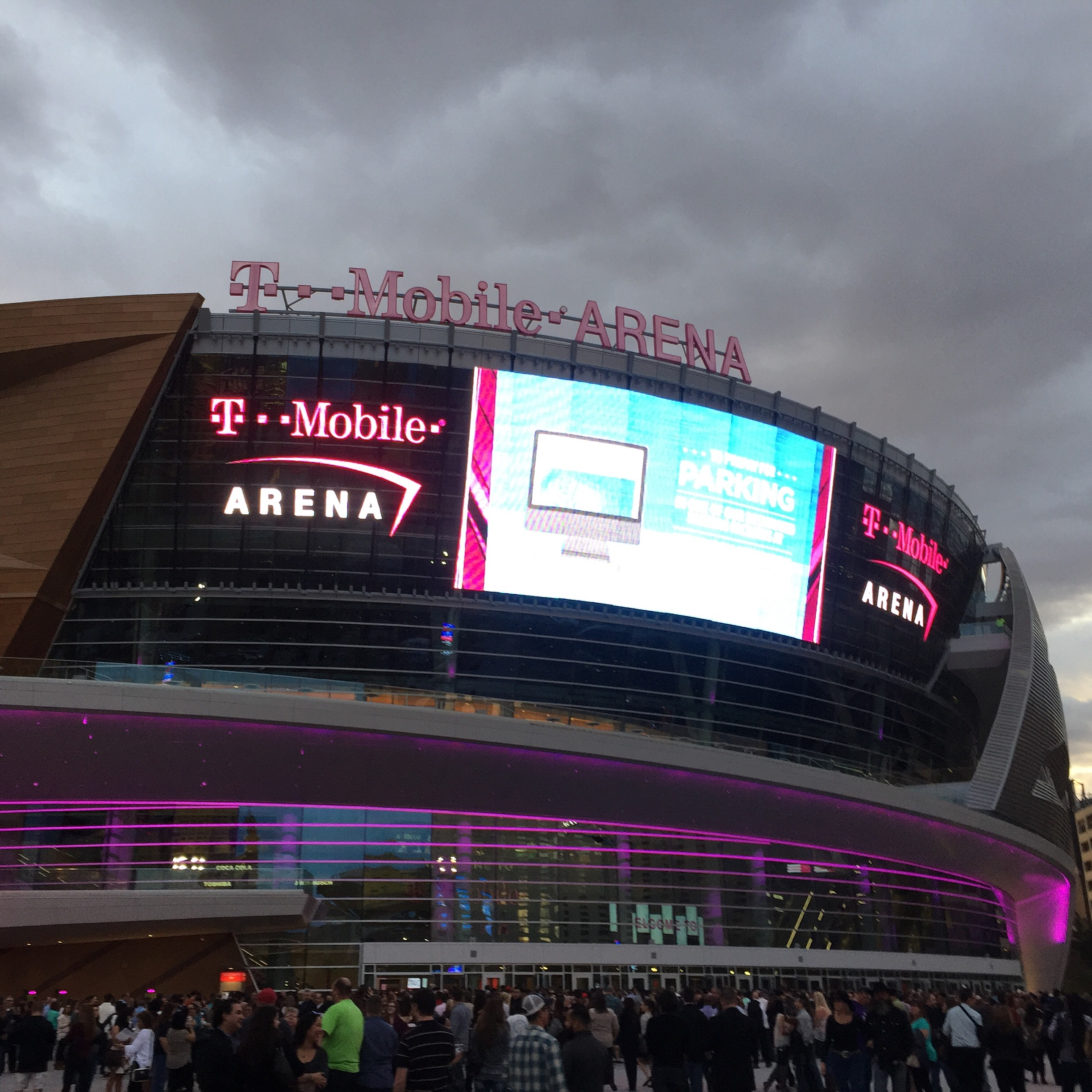 T-Mobile Arena Outside